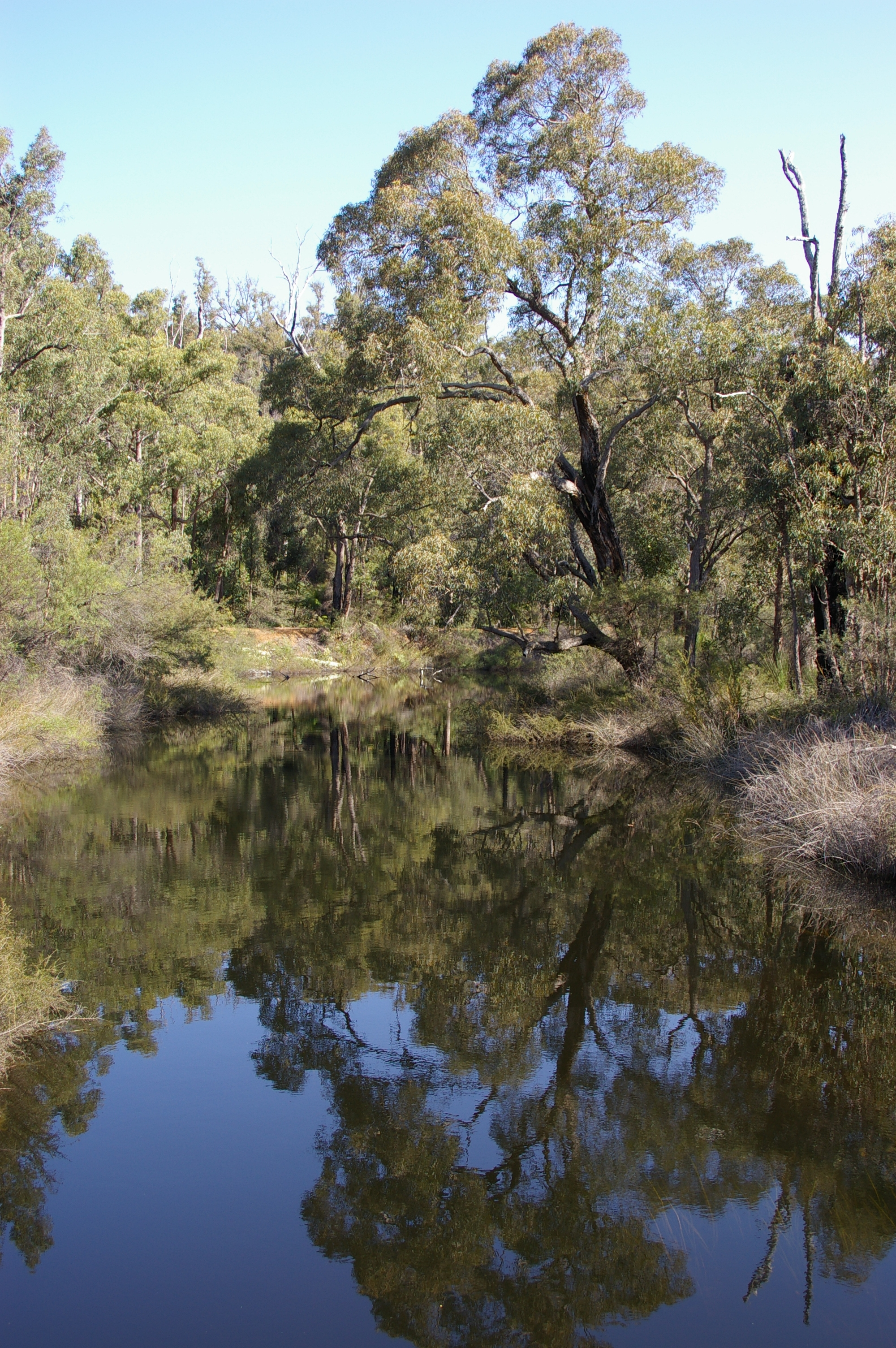 Taken in the Monadnocks Conservation reserve near the bibbulmun track where it crosses the upper reaches of the Canning river Canning River looking down stream from the bibbulmun track crossing